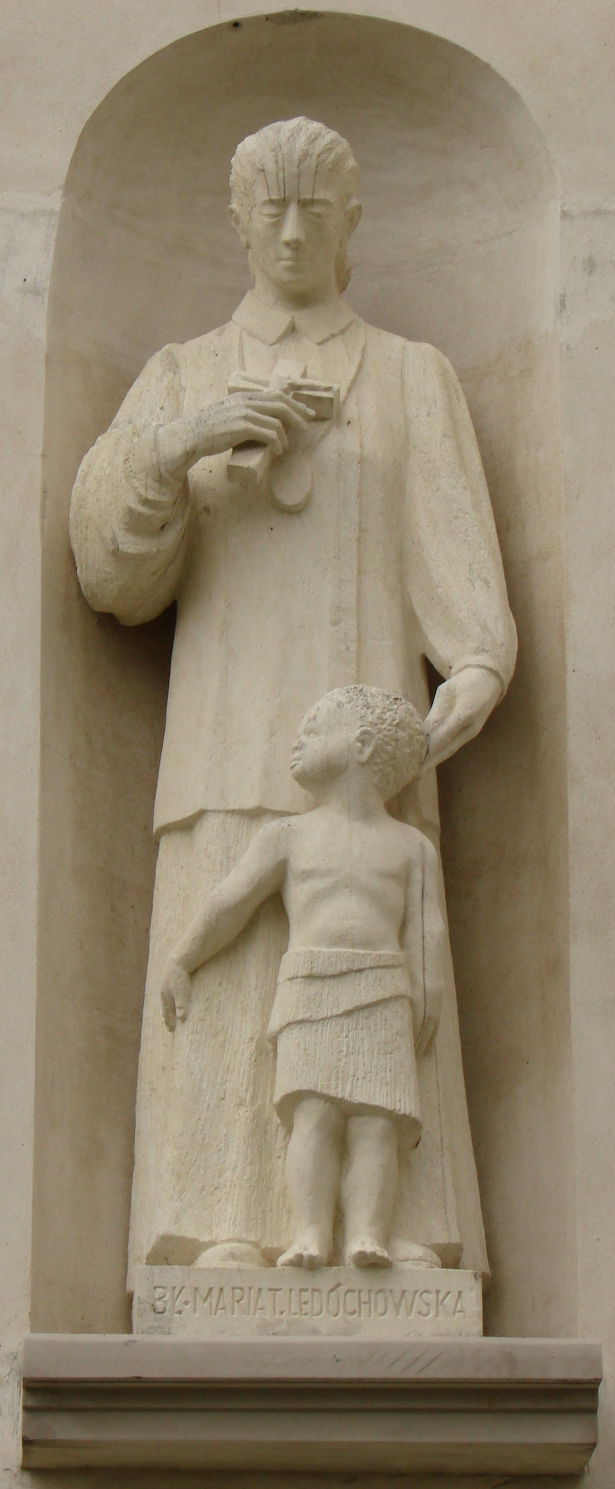 Sculpture of Maria Ledóchowska from Saint Joseph's church in Muszyna, Poland